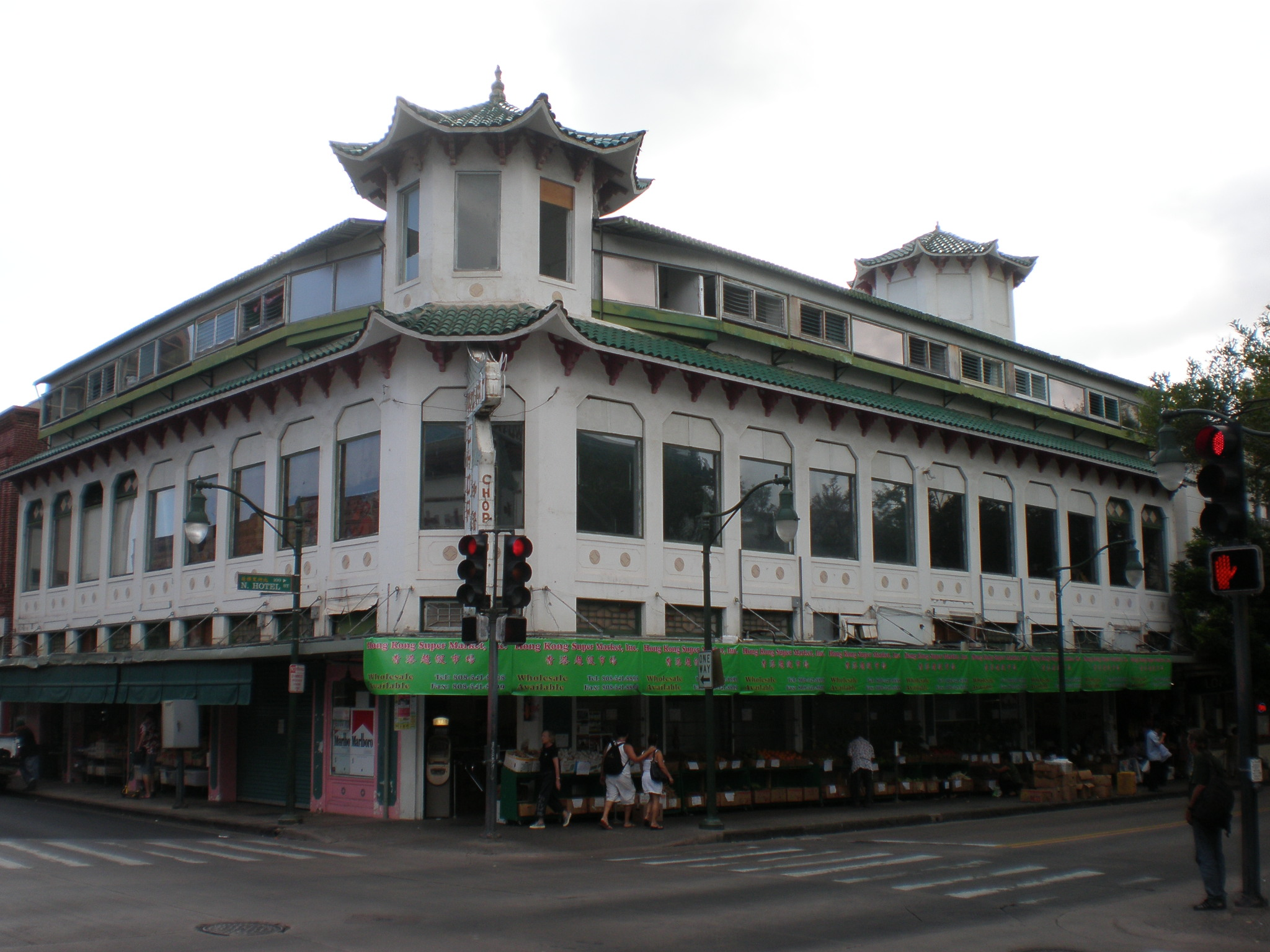 Wo Fat Building, 115 North Hotel St., Honolulu, Hawaii, in the heart of the Chinatown Historic District, which is on the National Register of Historic Places